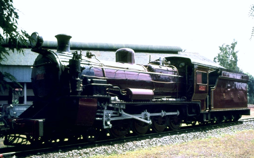 Harry Hedgehog investigates Steam Trains in Nairobi Kenya